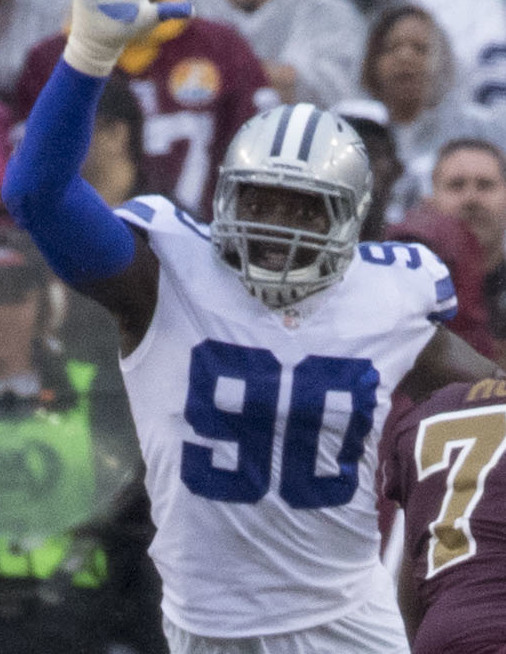 Cowboys at Redskins 10/29/17